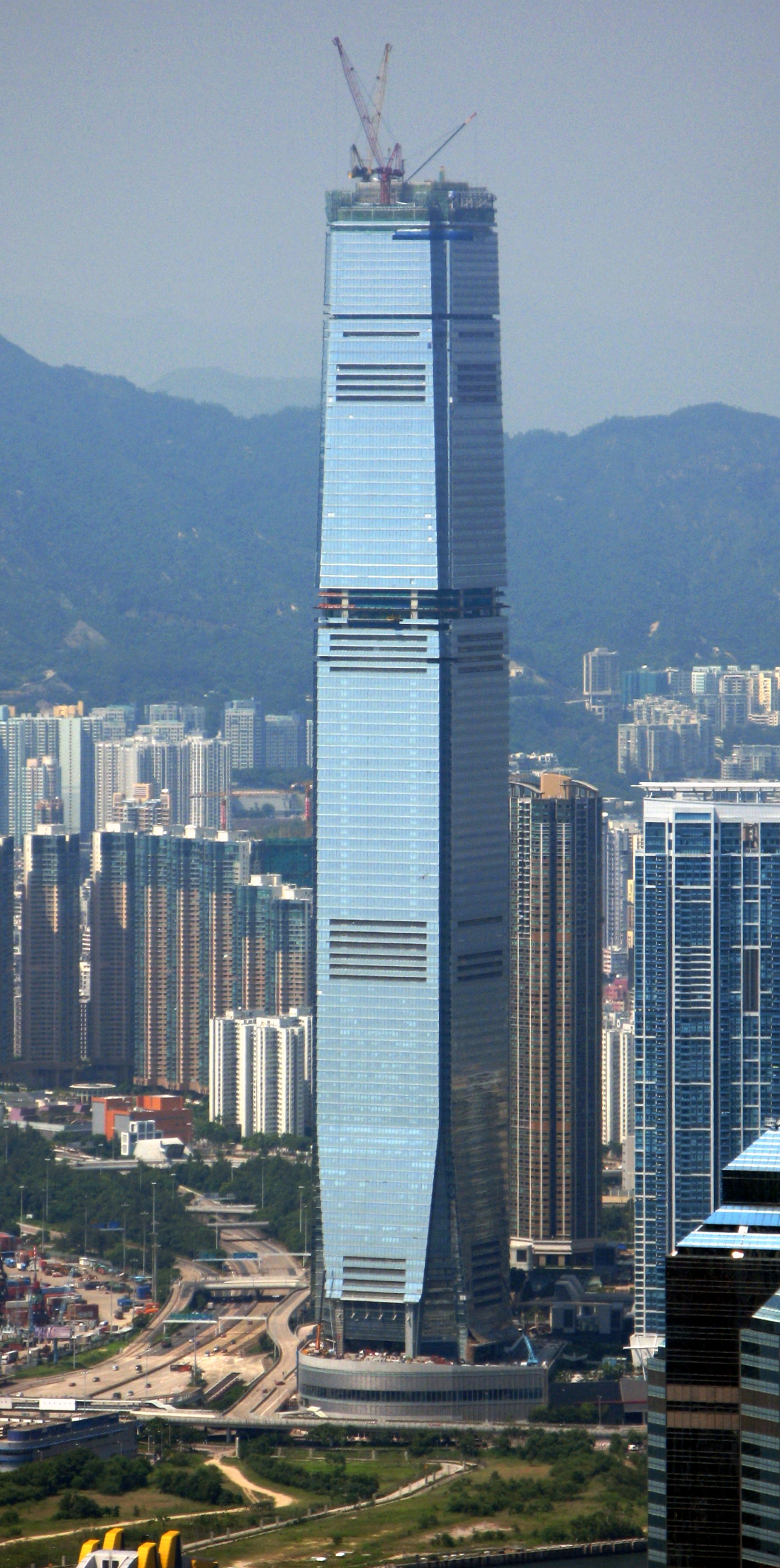 International Commerce Centre 環球貿易廣場